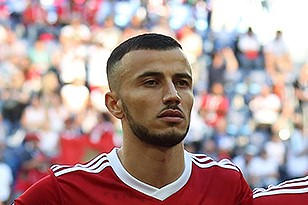 Romain Saiss with Morocco at the 2018 FIFA World Cup.